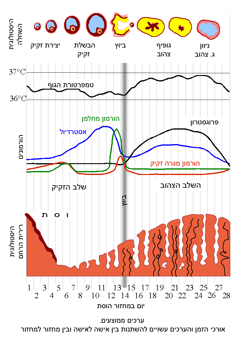 menstrual cycle (Hebrew version). Original one here: File:MenstrualCycle2.png